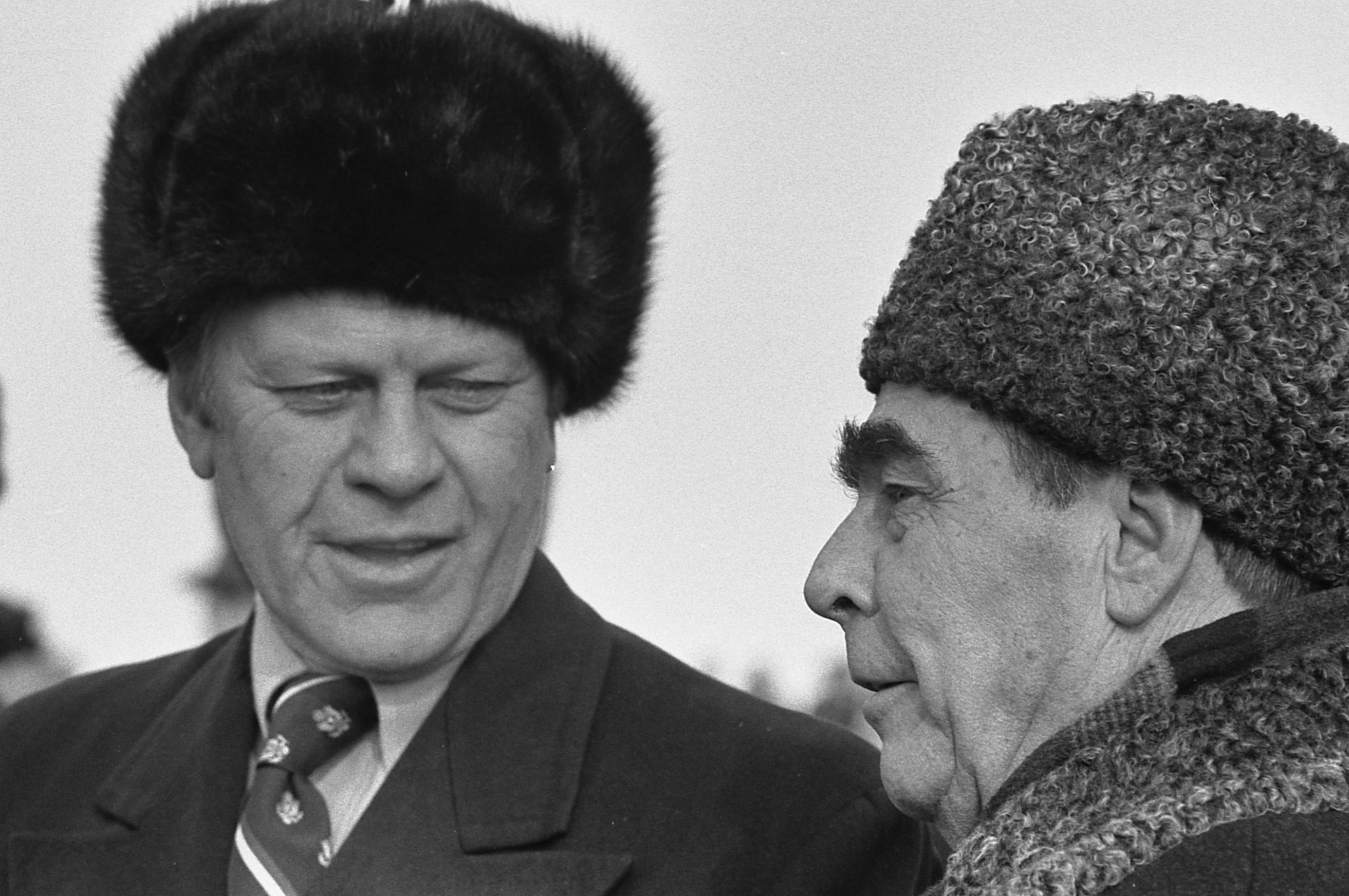 Photograph of President Gerald Ford with Soviet General Secretary Leonid Brezhnev upon Ford's arrival at Vozdvizhenka Airport, Vladivostok, U.S.S.R.